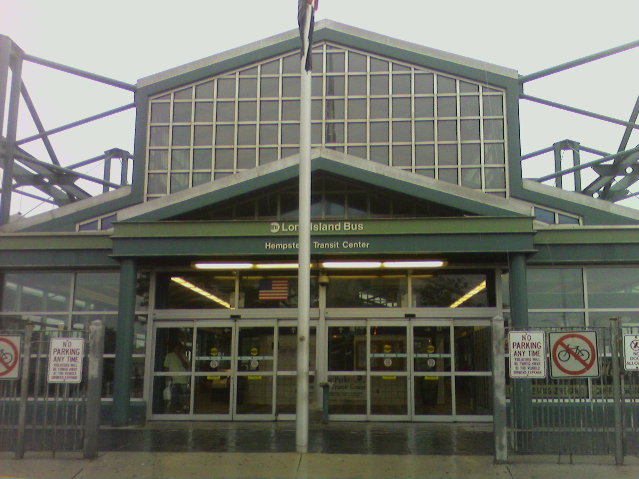 Hempstead Transit Center in Hempstead, New York